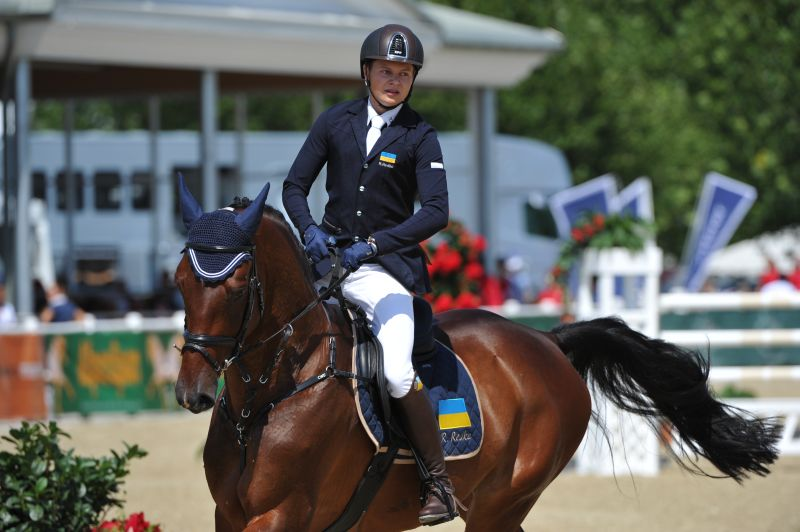 Radion Redko